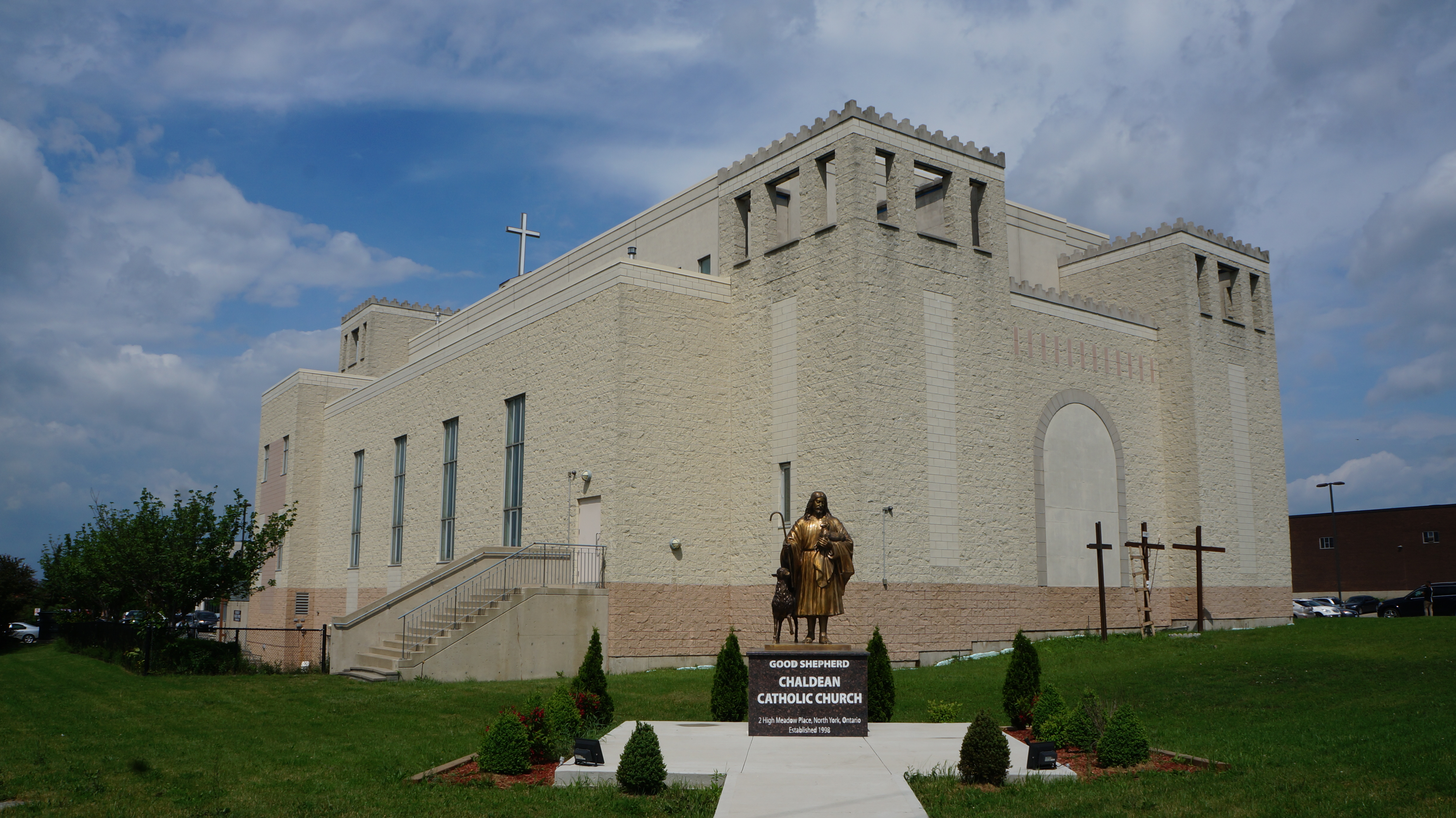 Exterior of the Good Shepherd Chaldean Cathedral - North York, Ontario